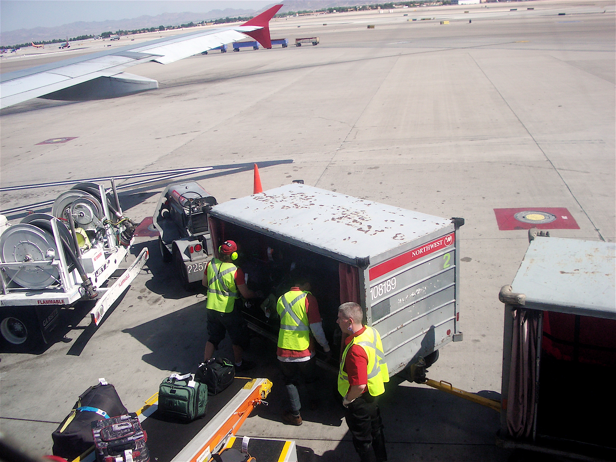 Baggage handlers loading a Northwest Airlines airplane at LAS (Las Vegas Airport).